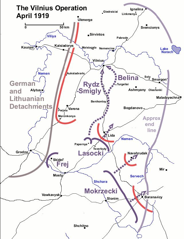 Battle of Wilno (1919) and surrounding theatre